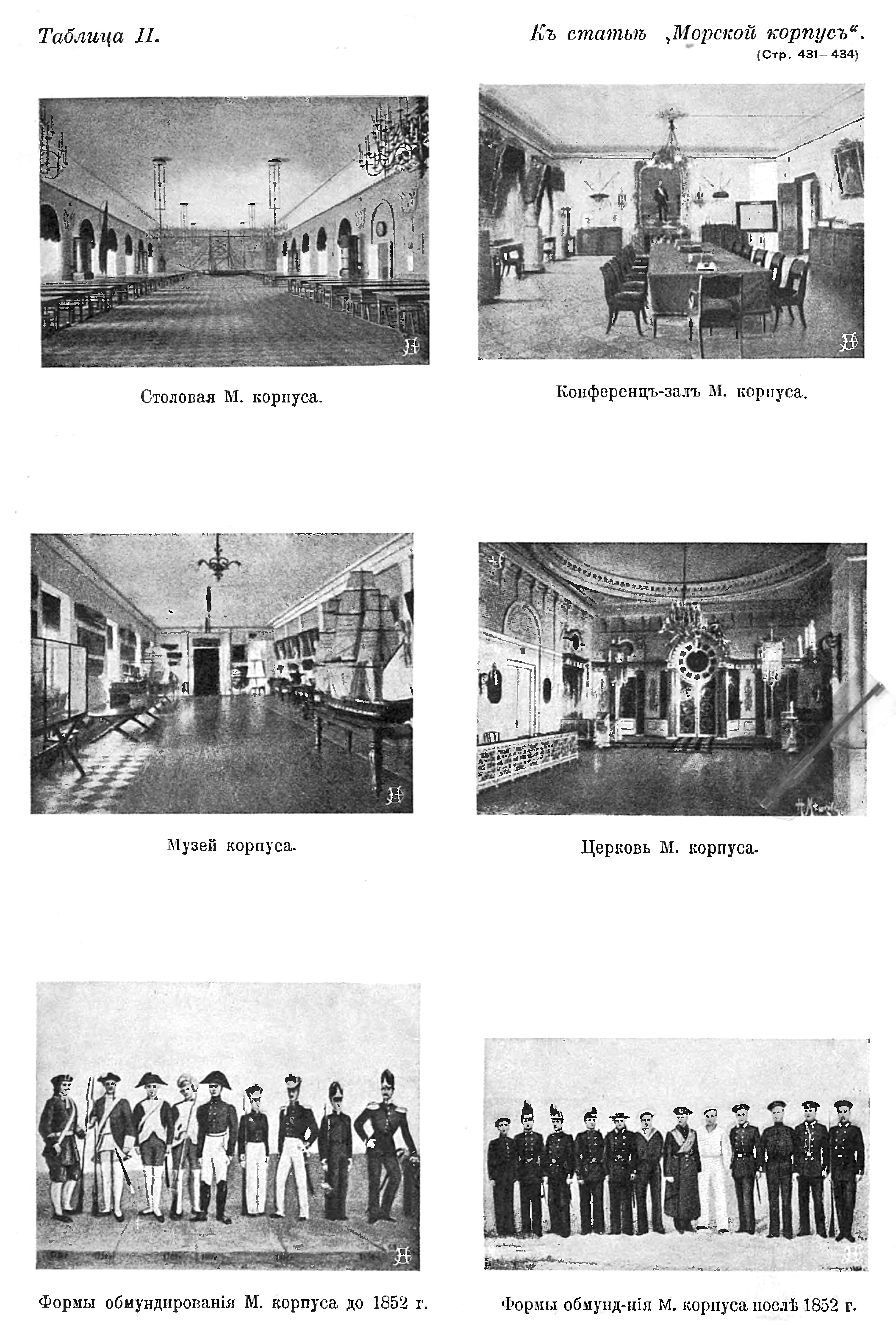 The Sea Cadet Corps (Russian: Морской кадетский корпус), occasionally translated as the Marine Cadet Corps or the Naval Cadet Corps, is an educational establishment for training Naval officers for the Russian Navy in Saint Petersburg.